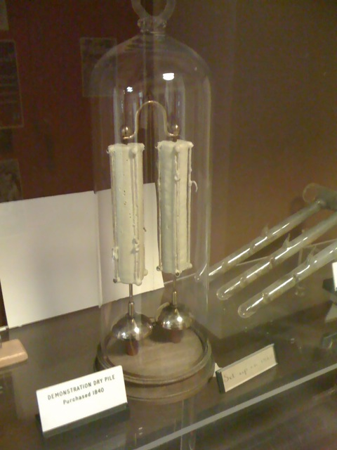 The Oxford Electric Bell or Clarendon Dry Pile is an experimental electric bell that was set up in 1840 and has rung almost continuously after that. It is located in the foyer of the Clarendon Laboratory at the University of Oxford.